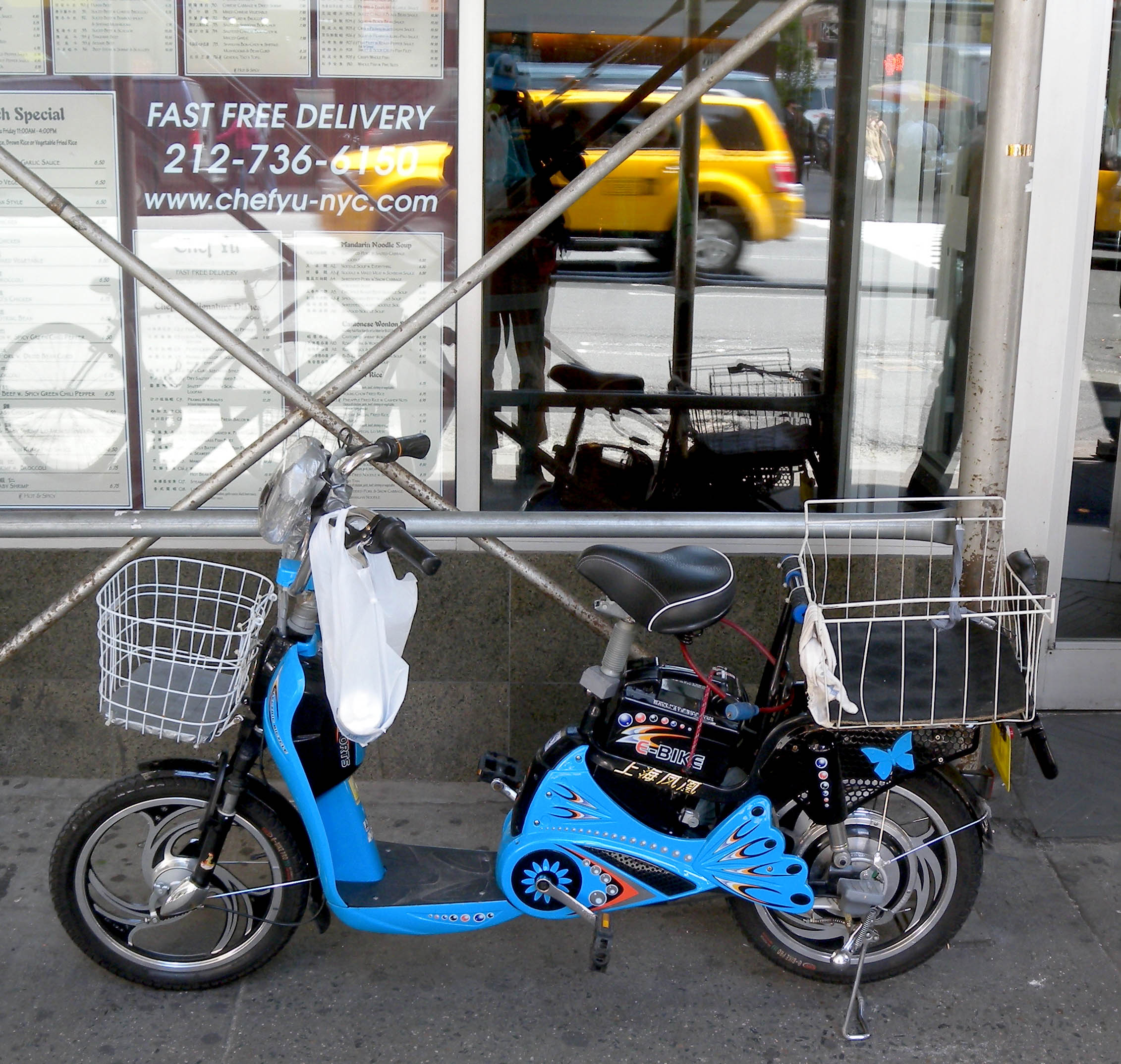 An electric bicycle chained on West 34th Street, Manhattan.